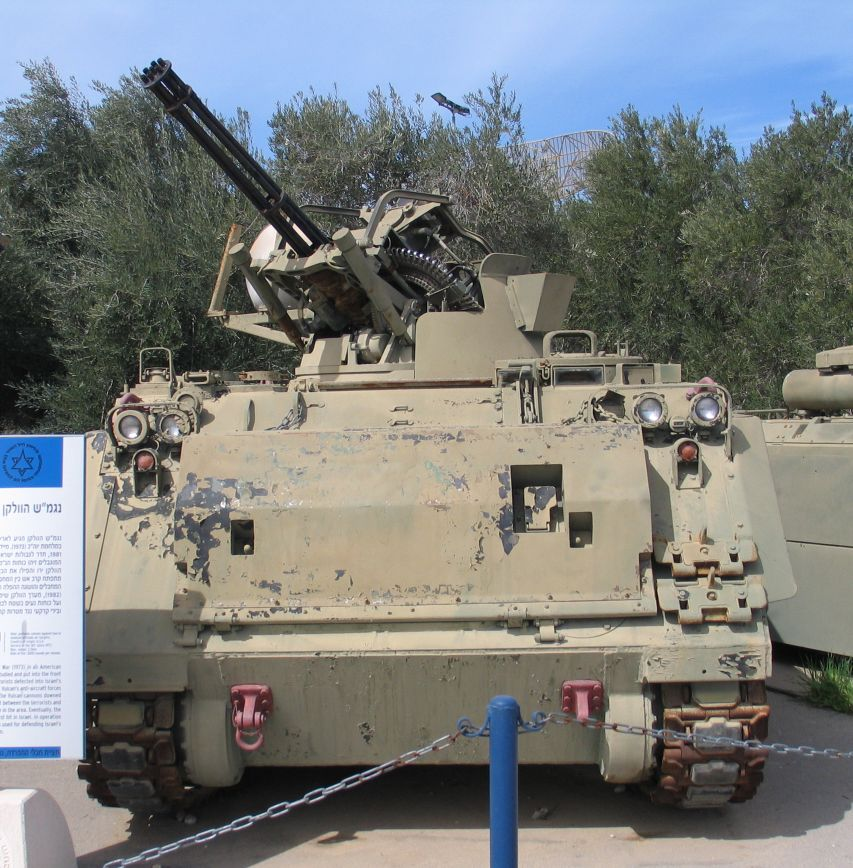 Description: M163 VADS air defence vehicle at Muzeyon Heyl ha-Avir, Hatzerim airbase, Israel. 2006. Source: Photo by me, User:Bukvoed.